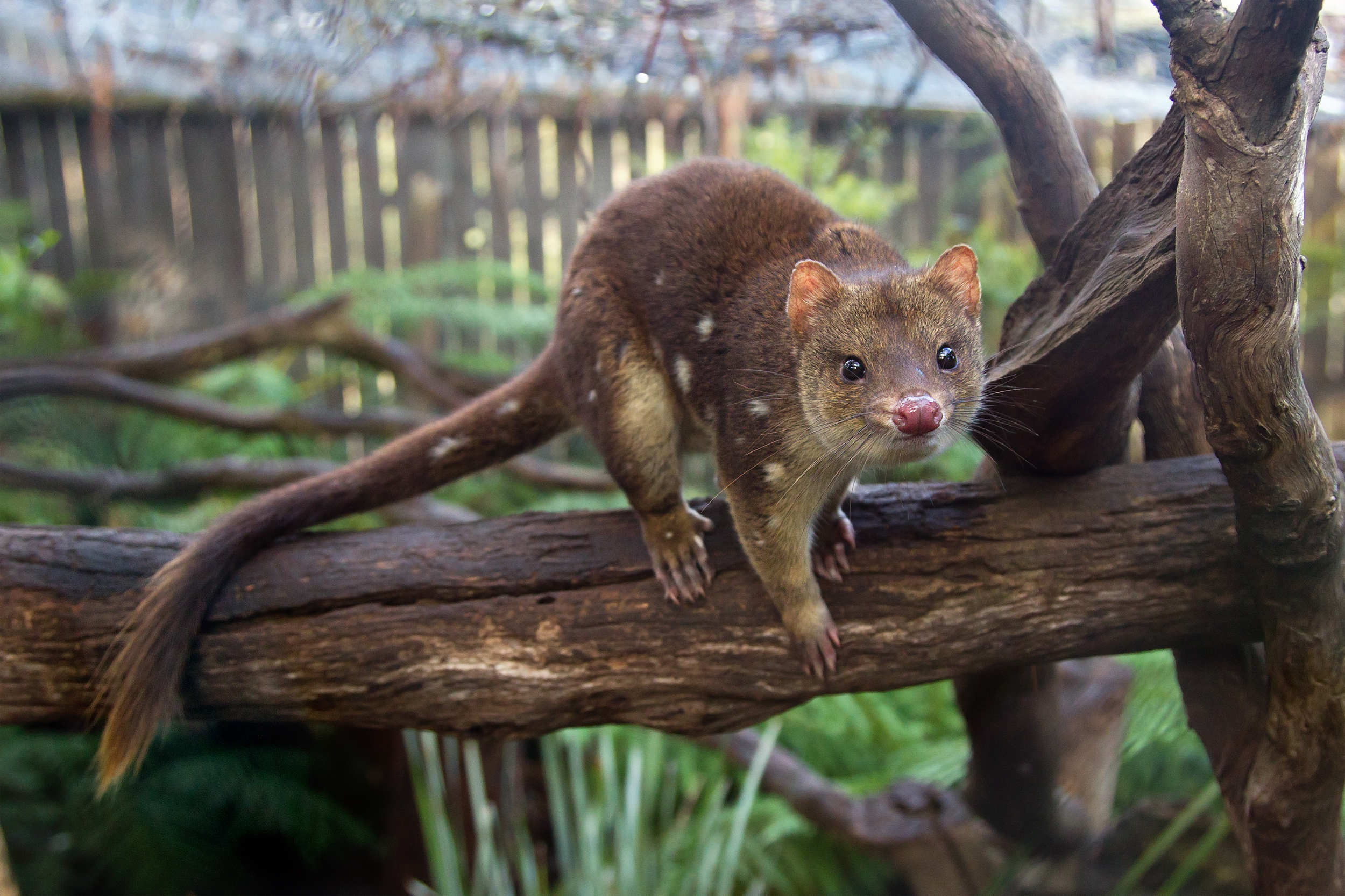 Spotted-tail Quoll (Dasyurus maculatus), Bonorong Wildlife Park, Tasmania Australia